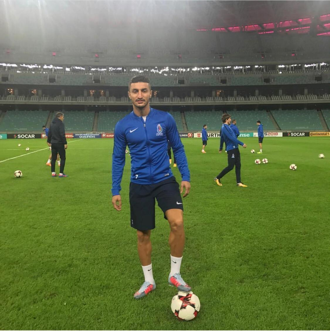 Azerbaijani football player Araz Abdullayev